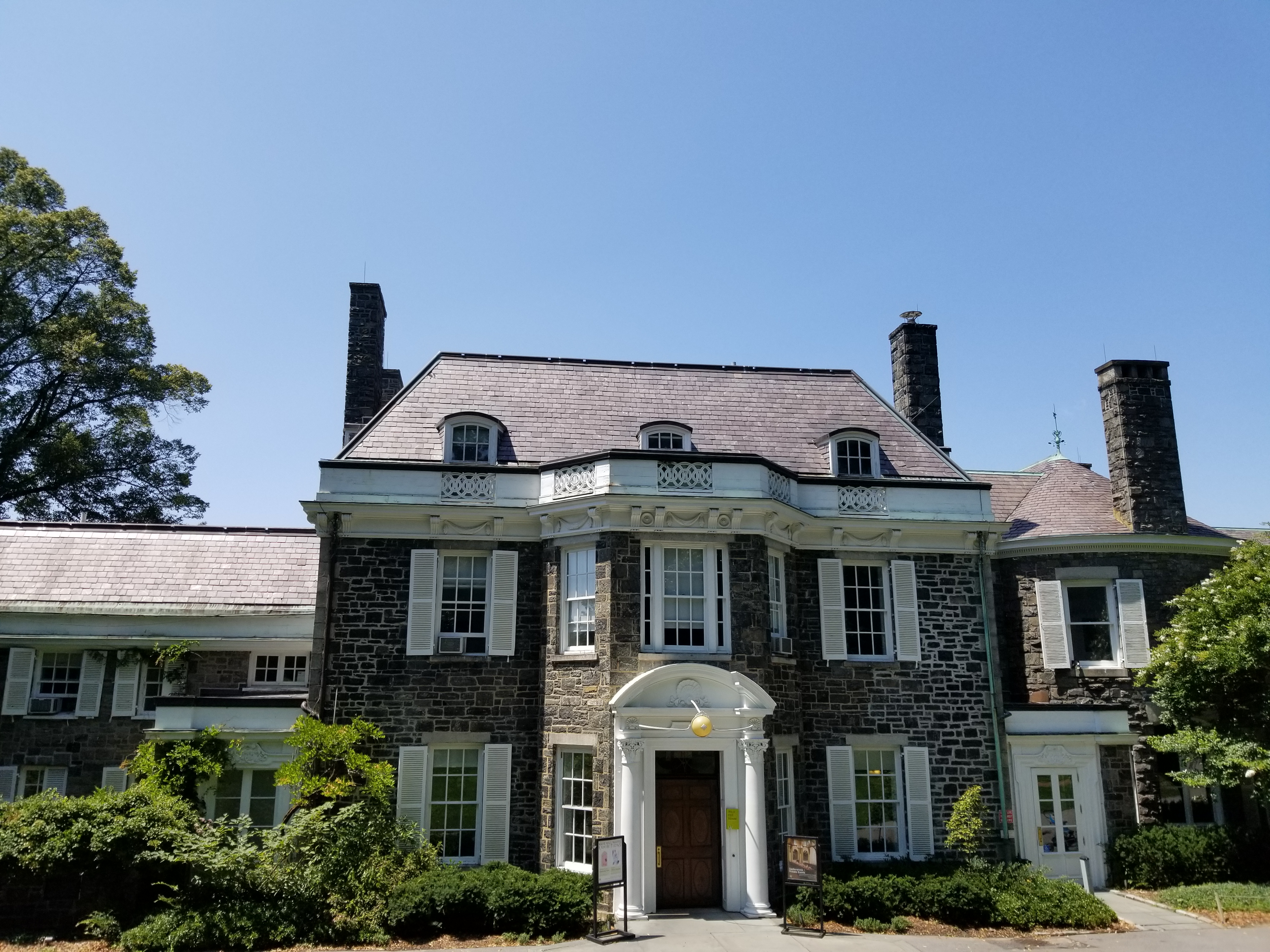 Wave hill house, August 2019